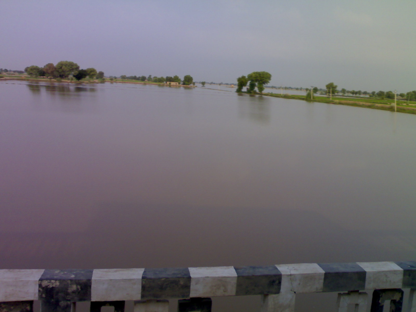 )View of Ghaggar river near Anoopgarh, India. This photo is taken through window of Bus.Shemaroo (talk) 04:04, 4 September 2010 (UTC)